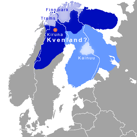 Location of Kvenland among all areas formerly inhabited by Sami people (light blue) and recently by Finns (dark blue, including Karelians)